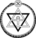 Theosophical Seal